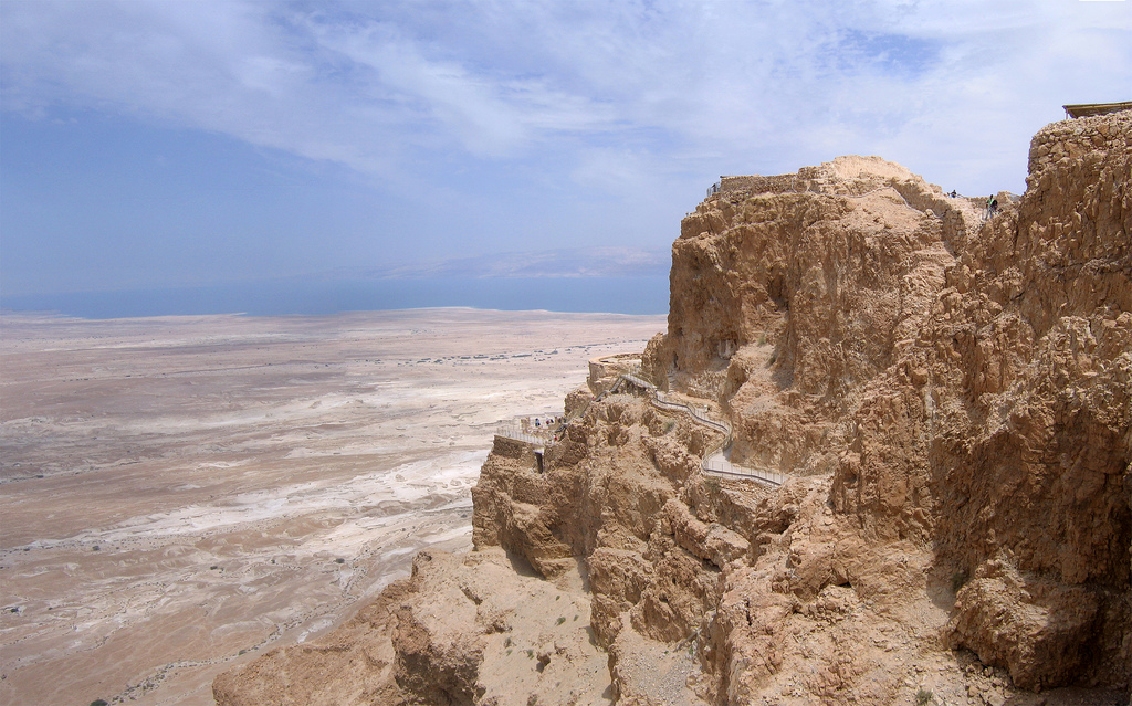 Masada, Archeological sites of Israel